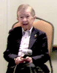 A photo of Dick Beals